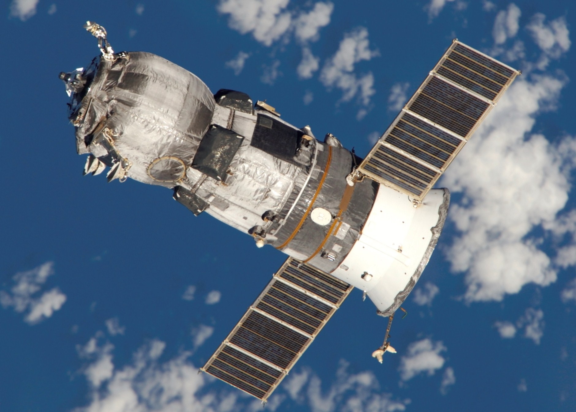 The unmanned Progress M-52 (ISS-17P) spacecraft photographed by the crew of Expedition 11 following its undocking from the International Space Station at 15:16 CDT on 15 June 2005. The spacecraft had previously delivered supplies to the space station before being filled with rubbish and disconnected from the orbital complex, in preparation for its destruction on reentry into the Earth's atmosphere.